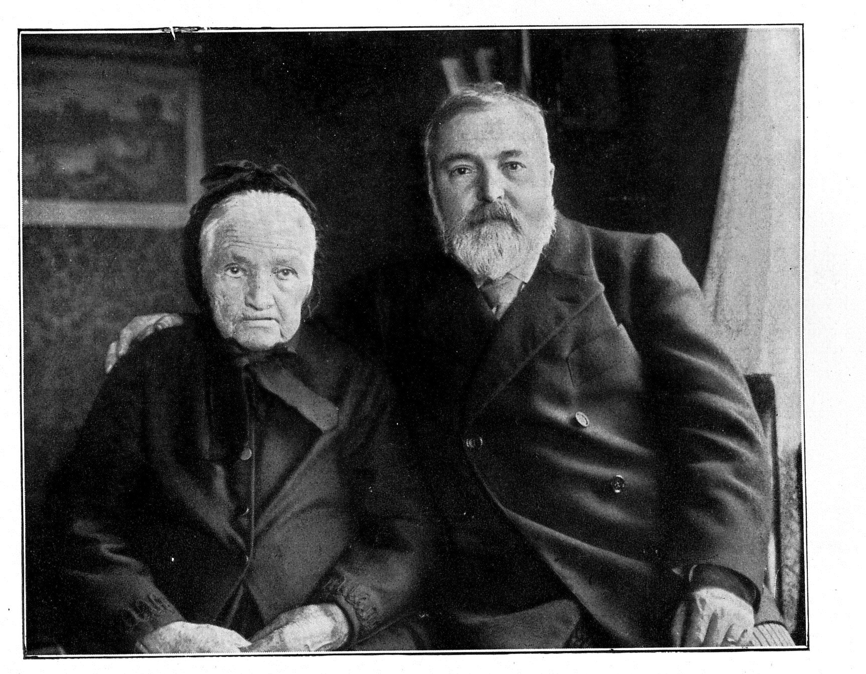 Hans Thoma